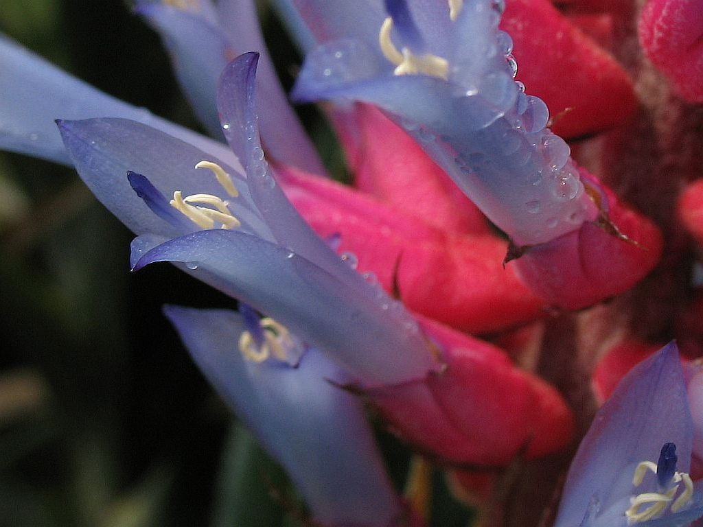 Ronnbergia wuelfinghoffii in cultivation at the Botanical Garden of Heidelberg, Germany.